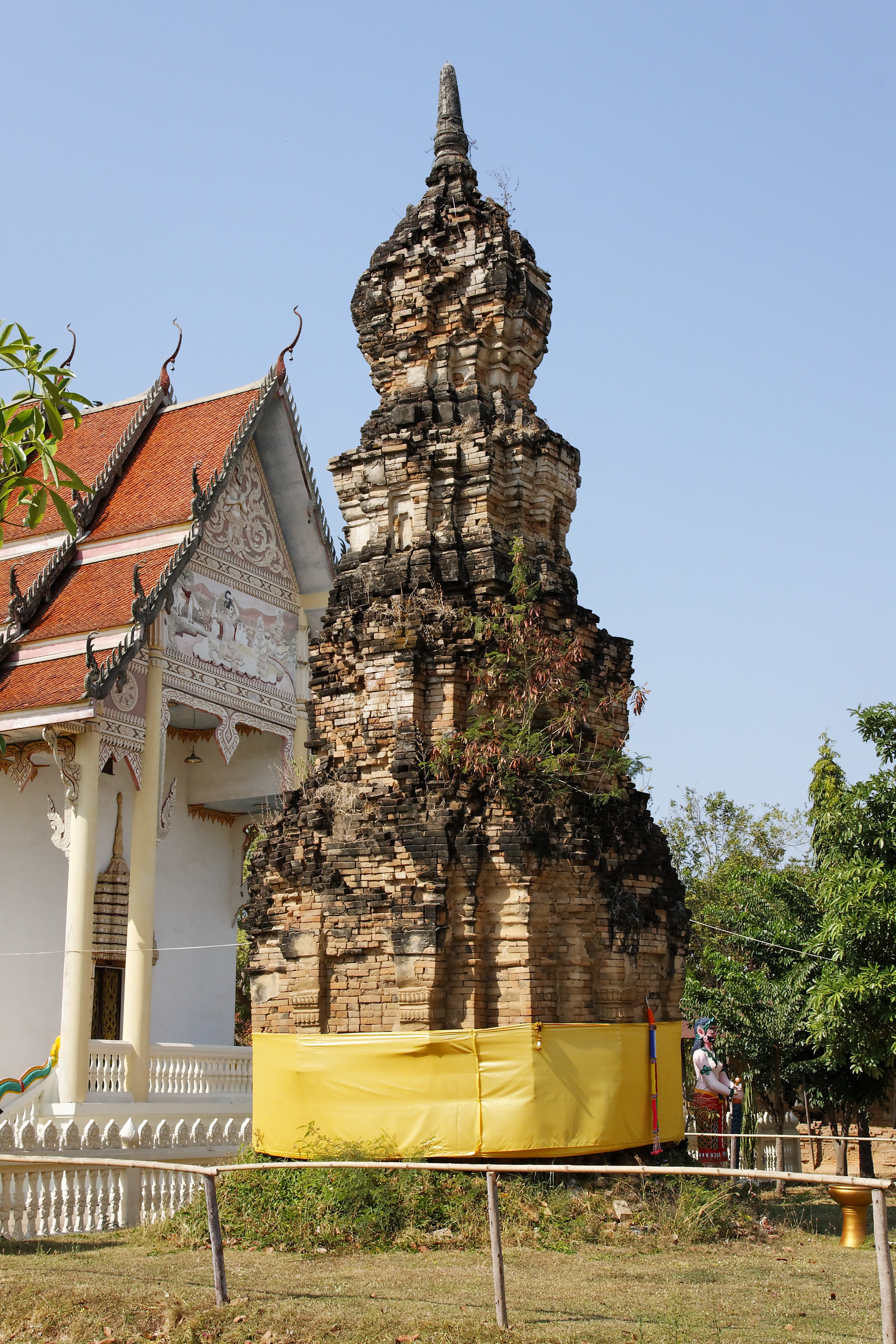 Prasat Ban Muang Cham, Thailand